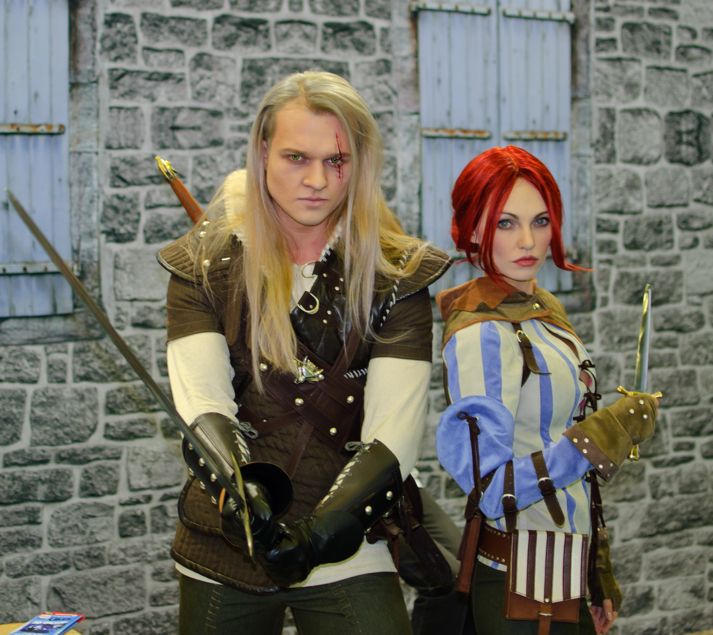 Girls of Igromir 2010